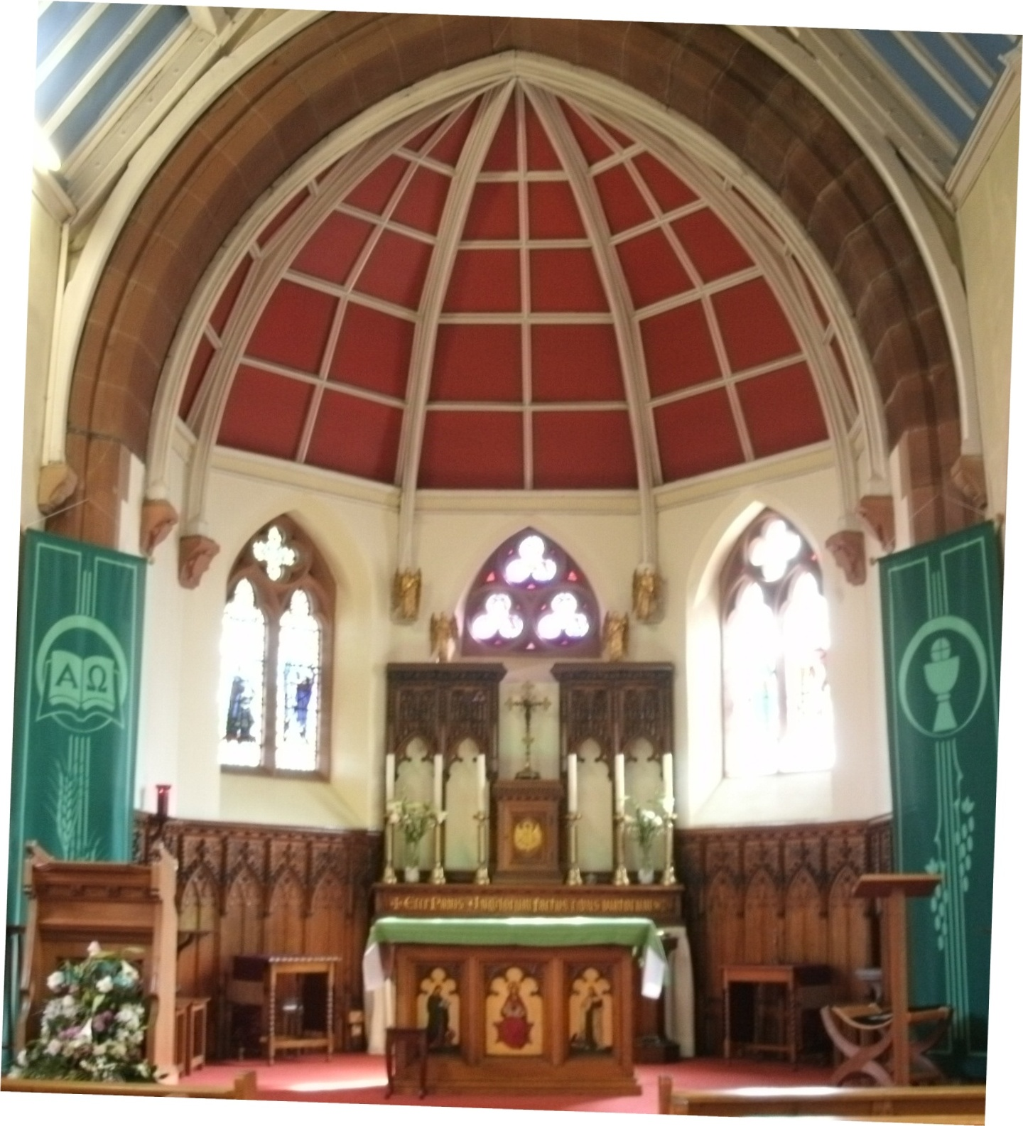 Interior of St. Catherine's Catholic Church, Penrith.